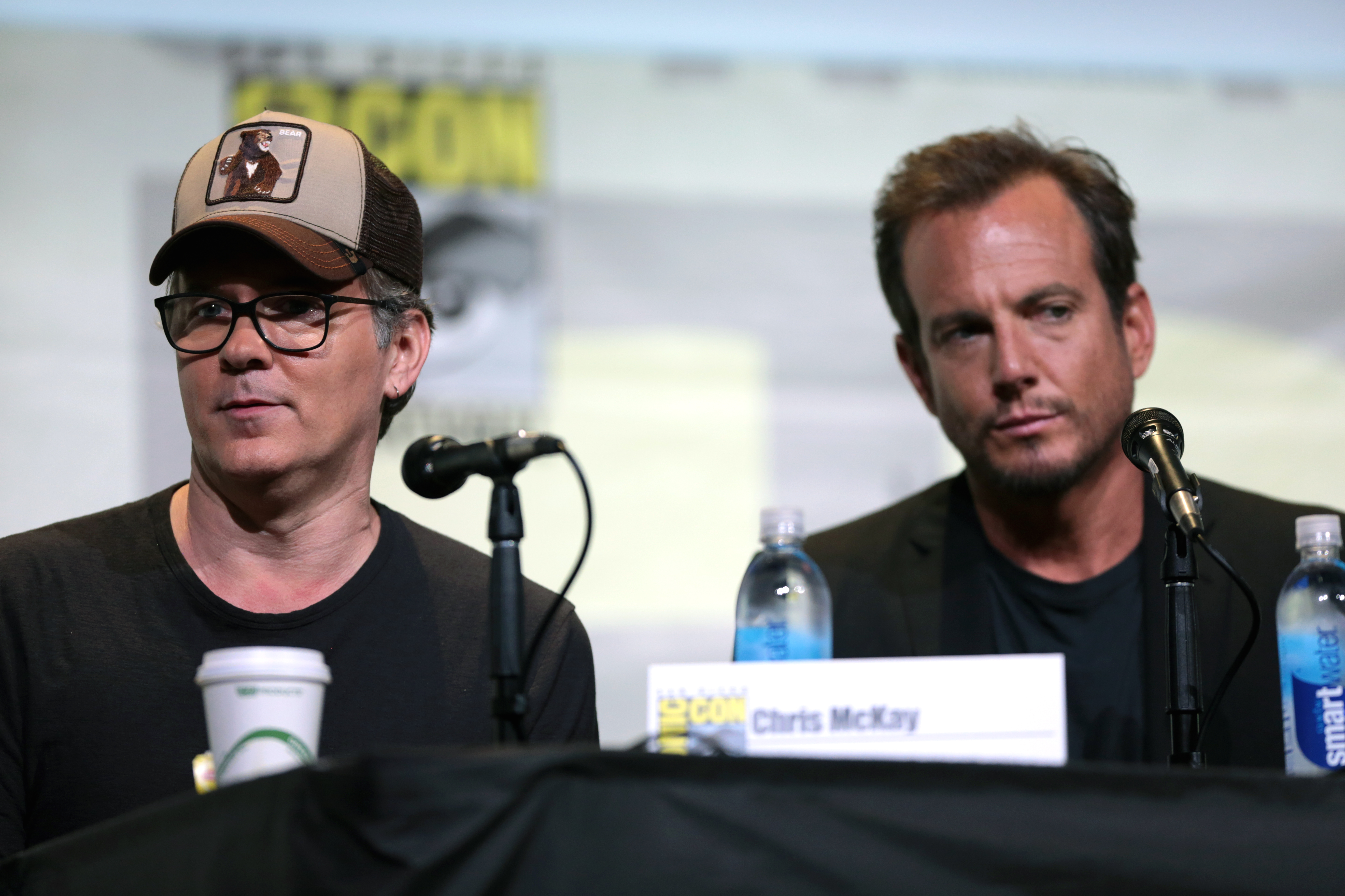 Chris McKay and Will Arnett speaking at the 2016 San Diego Comic Con International, for "The LEGO Batman Movie", at the San Diego Convention Center in San Diego, California.